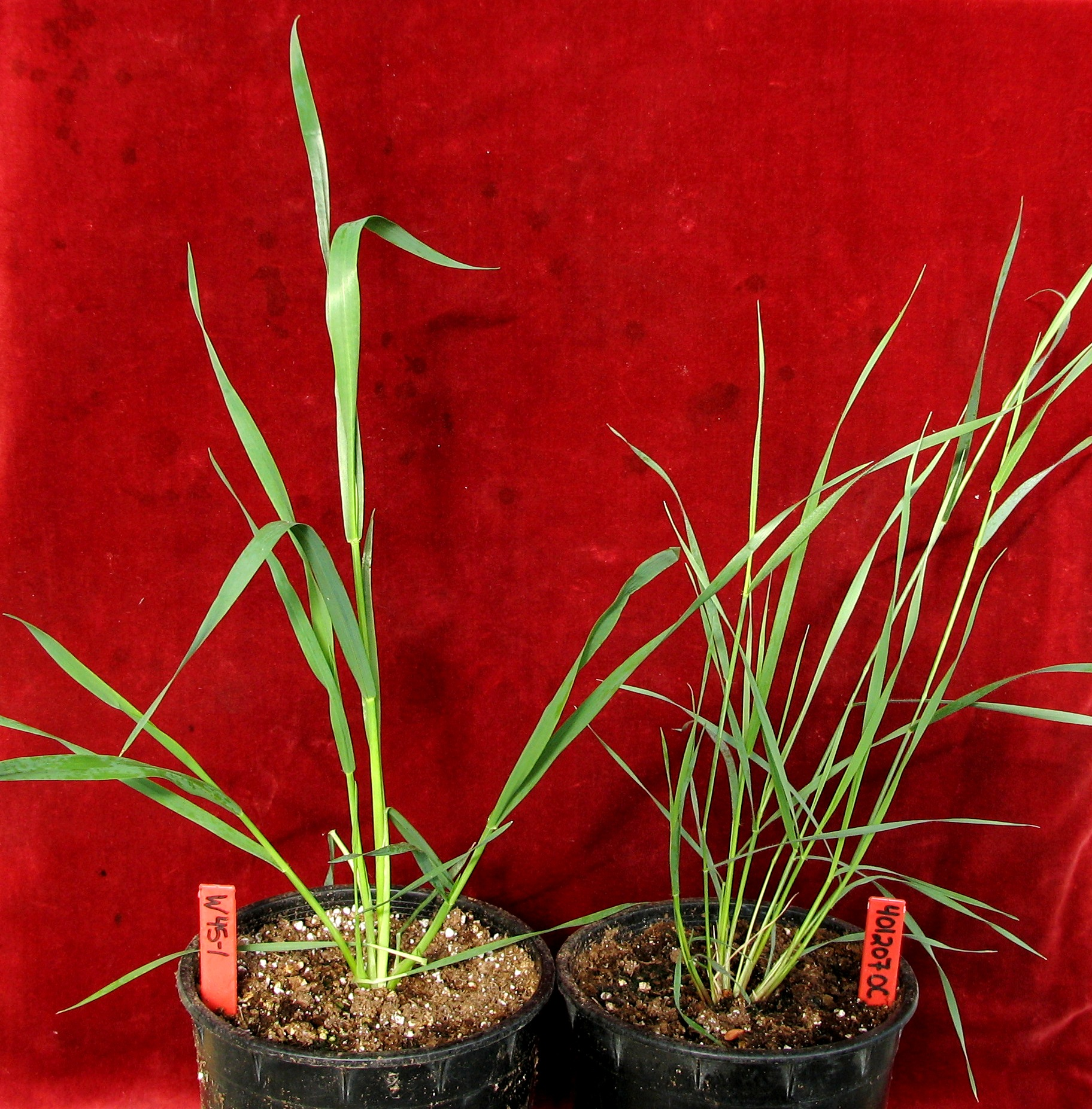 Two young greenhouse-grown plants. The left plant is wheat (Triticum aestivum). The right plant is a wild Thinopyrum intermedium plant which has a greater number of smaller stems. It is about three weeks older than the faster-growing wheat plant at left.